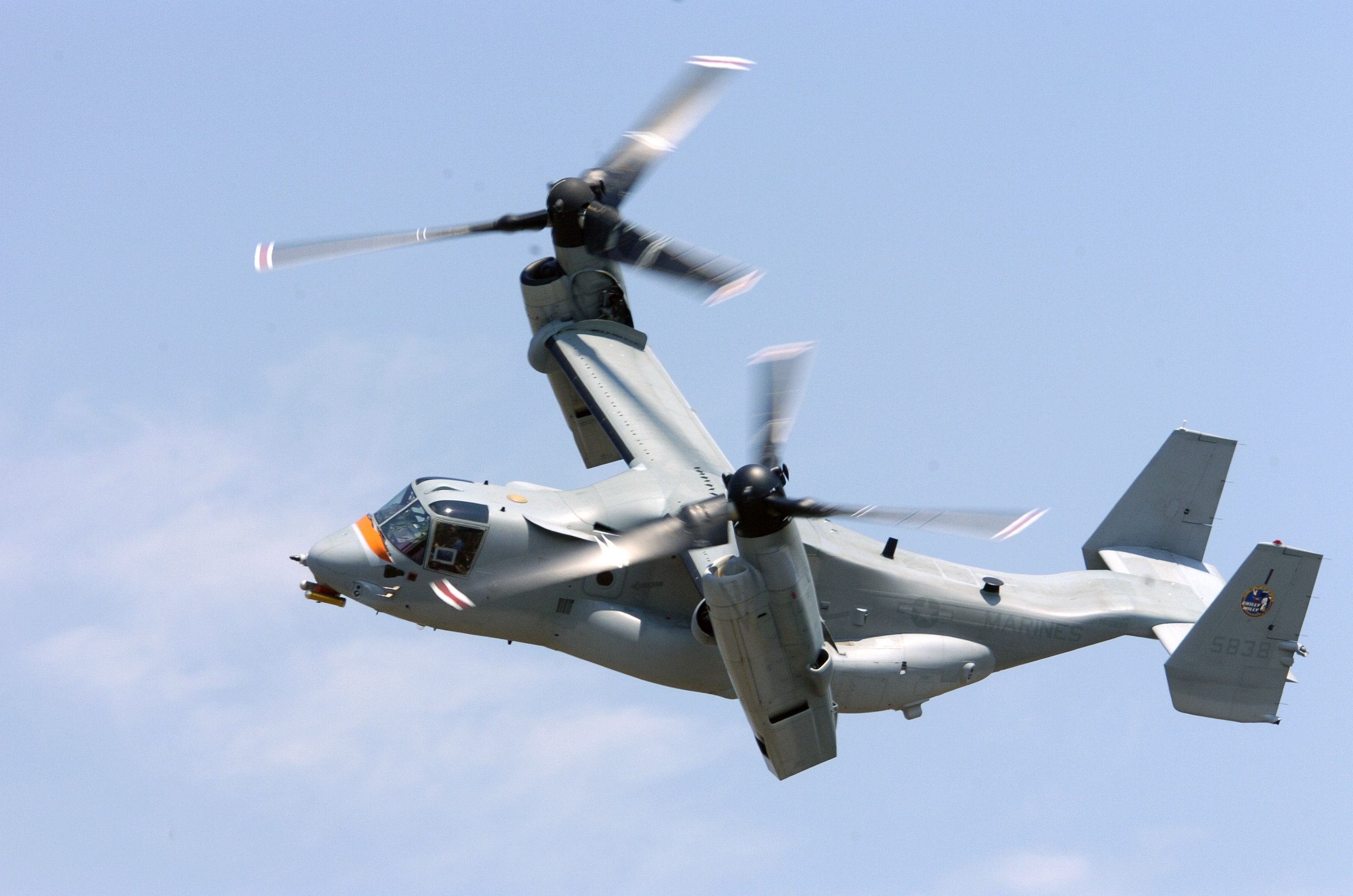 Patuxent River, Md. (Aug. 2, 2005) - A U.S. Marine Corps MV-22 Osprey, assigned to Naval Air System Command's (NAVAIR's) V-22 Integrated Test Team (ITT), takes flight from Naval Air Station Patuxent River, Md., for a routine training mission. The MV-22 is an advanced technology, vertical/short takeoff and landing (VSTOL) multipurpose tactical aircraft, and is scheduled to replace the aging CH-46E Sea Knight and CH-53D Sea Stallion helicopters currently in service. U.S. Navy photo by Photographer’s Mate 2nd Class Daniel J. McLain (RELEASED)